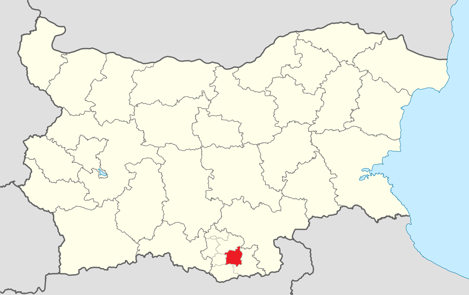 Location map of Momchilgrad Municipality within Bulgaria and Kardzhali province